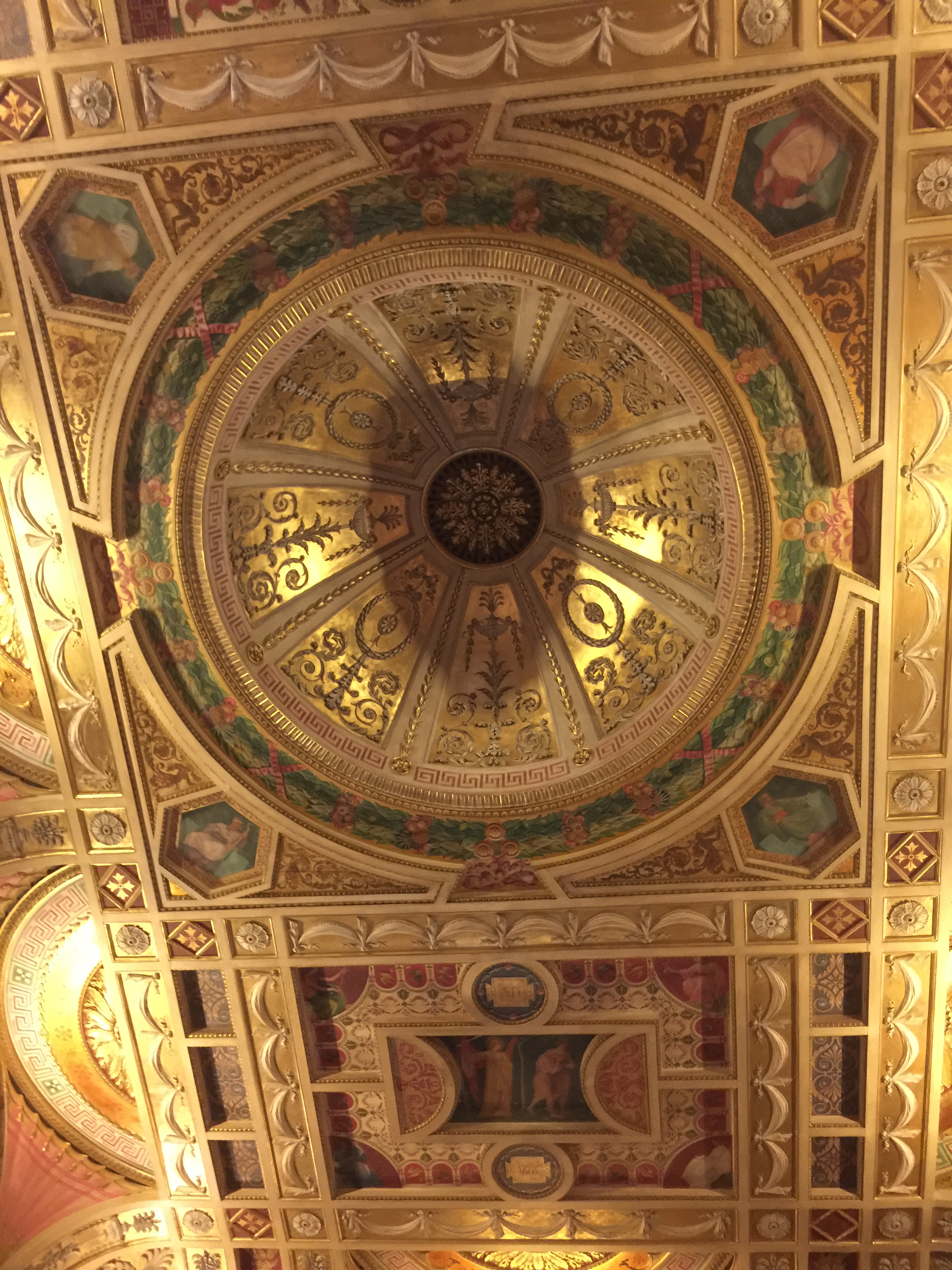 Worcester College, Oxford. Ceiling by William Burges.